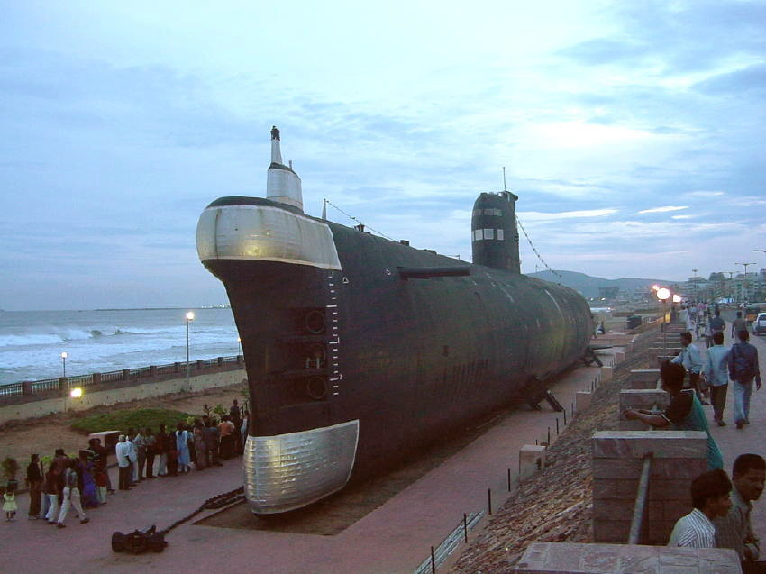 INS Kursura (S20), a former B-402 Soviet submarine, Foxtrot class (Project 641) that was transferred in 1969 to the Indian Navy. After decommission in 2001, it was turned into a museum submarine and opened in 2002 to the public at Ramakrishna Beach, Visakhapatnam, Andhra Pradesh.